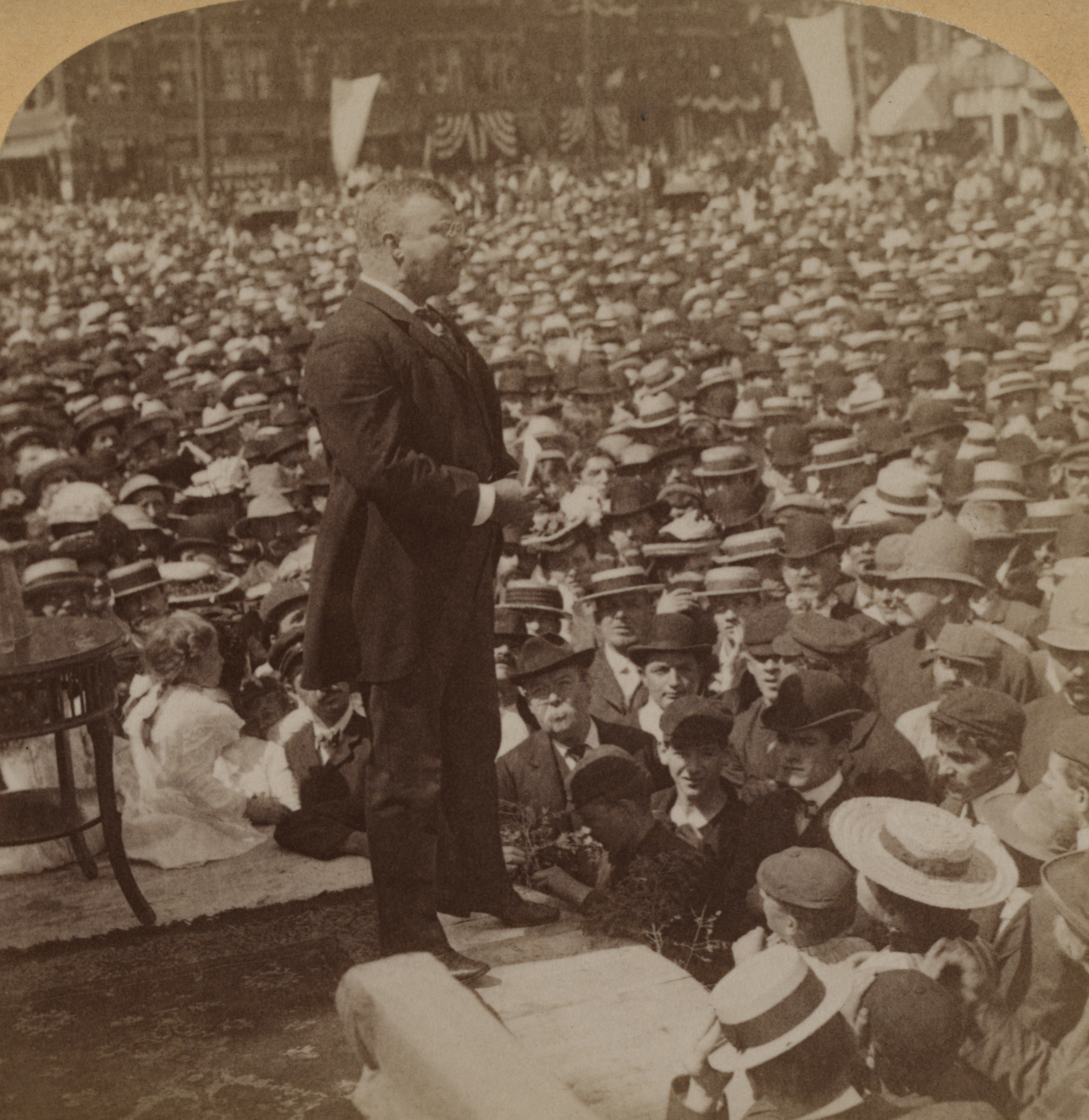 Title: "In battle the only shots that count are those that hit" - President Roosevelt's speech on the navy - Haverhill, Mass. Creator(s): Underwood & Underwood, publisher Date Created/Published: New York, London, Toronto-Canada, Ottawa-Kansas : Underwood & Underwood, publishers, c1902 October 31. Medium: 1 photographic print on stereo card : stereograph. Summary: Stereograph showing Roosevelt on a stage addressing a large crowd. Repository: Library of Congress Prints and Photographs Division Washington, D.C. 20540 USA